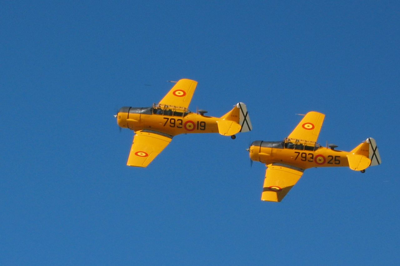 Two North American T-6 "Texan" during an exhibition by the Infante de Orleans Foundation, in Cuatro Vientos, Madrid, Spain